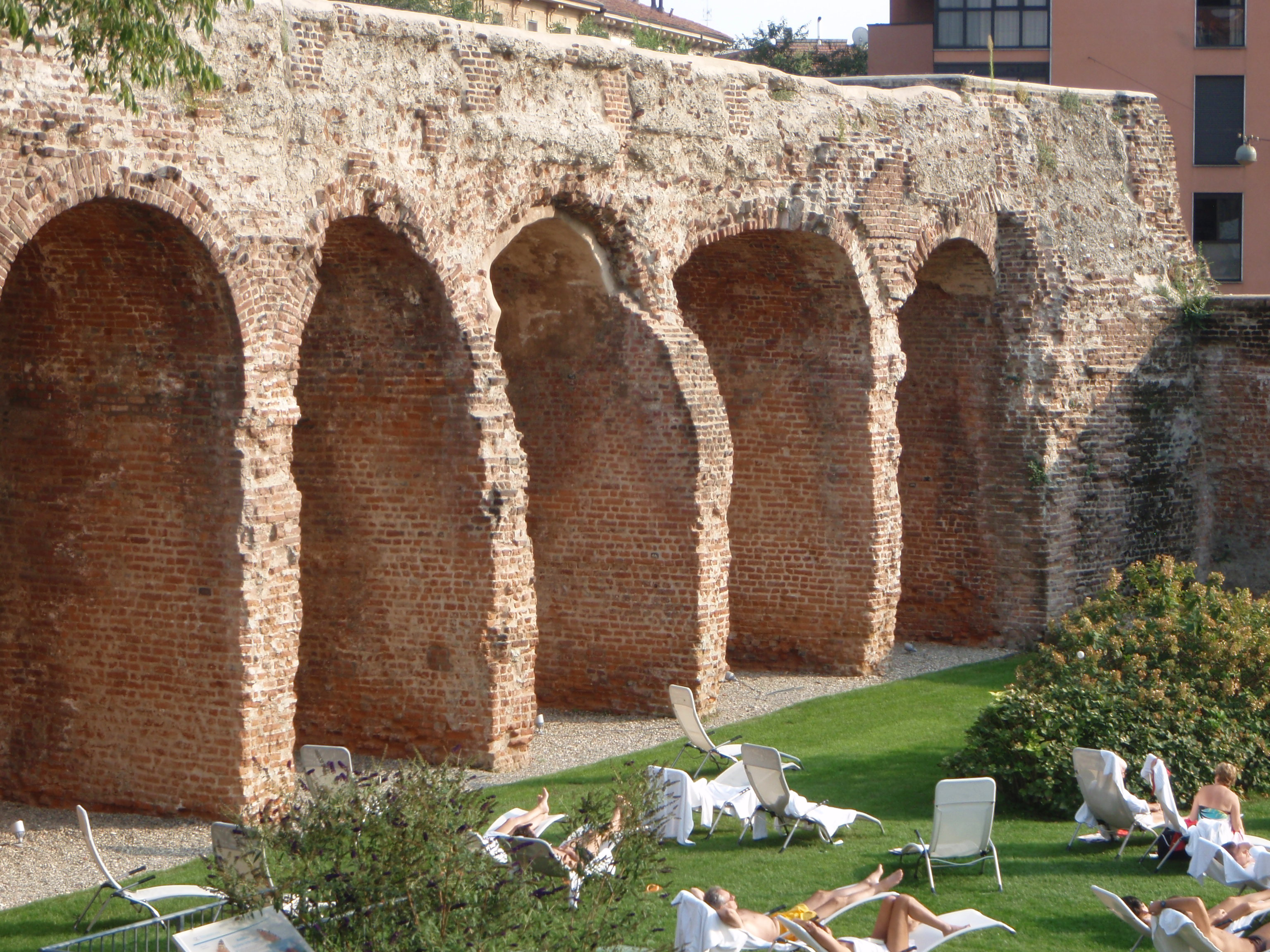 Milano Porta Romana Spanish walls from a modern wellness center garden